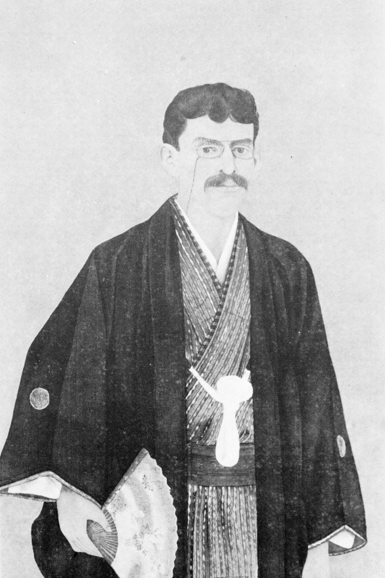 Picture of Portait of Guido Verbeck